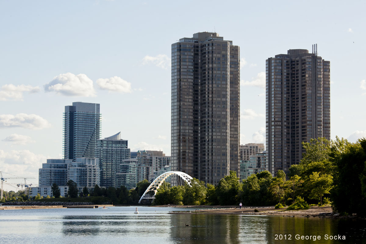 Palace Pier was one of the first lake side condo projects in Toronto, seemingly way out in the boondocks when the first tower was completed in 1978. In front is the modern pedestrian and cycle bridge over the mouth of the Humber River.